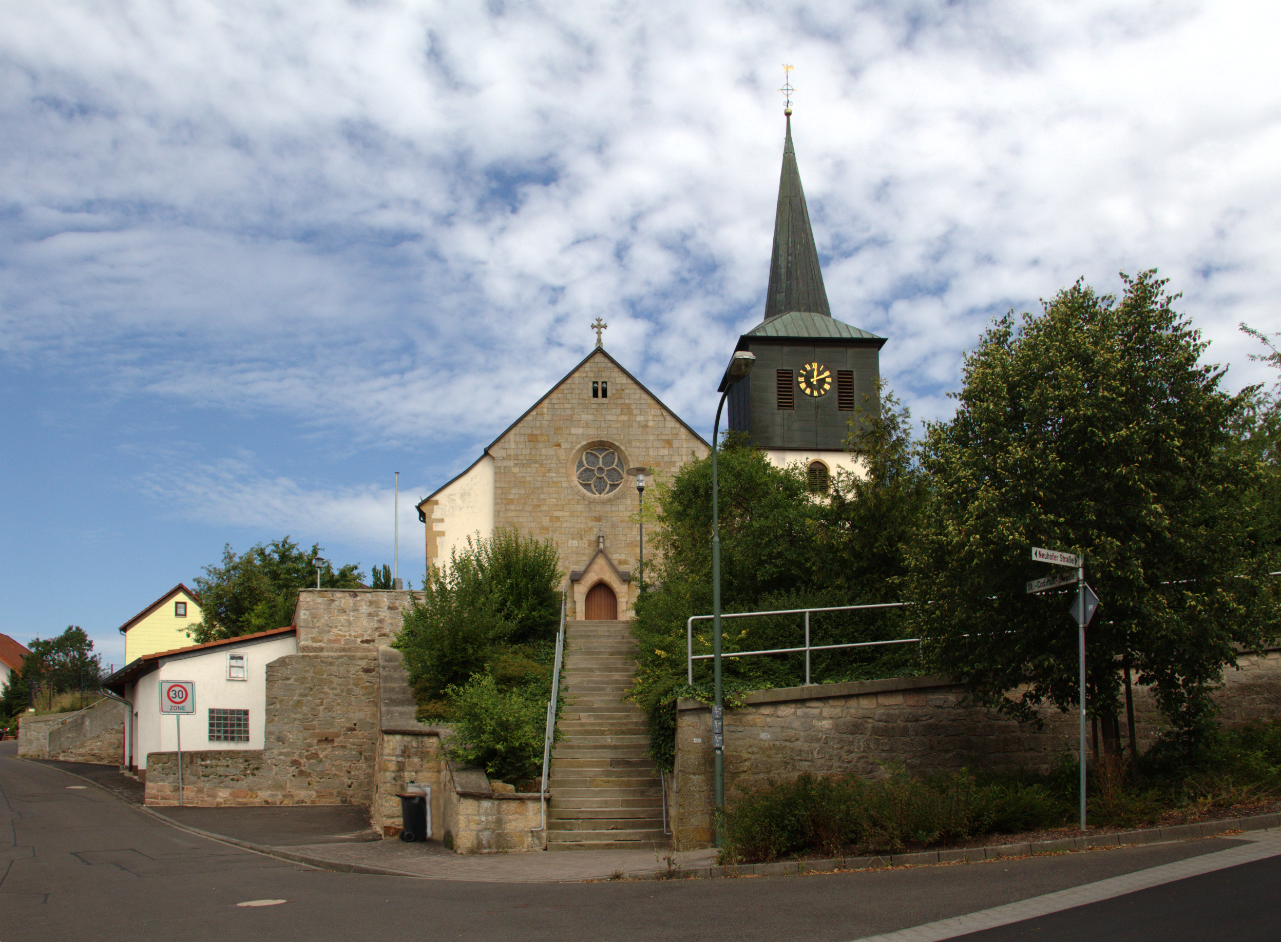 Saints Cosmas and Damian church in Hattenhof, Neuhof, Hesse, Germany